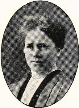 Ulrika Erikson (1876-1967), Swedish psychiatrist